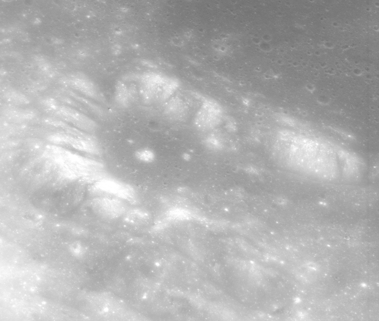 Oblique view of Daubree crater, facing south, on the moon.